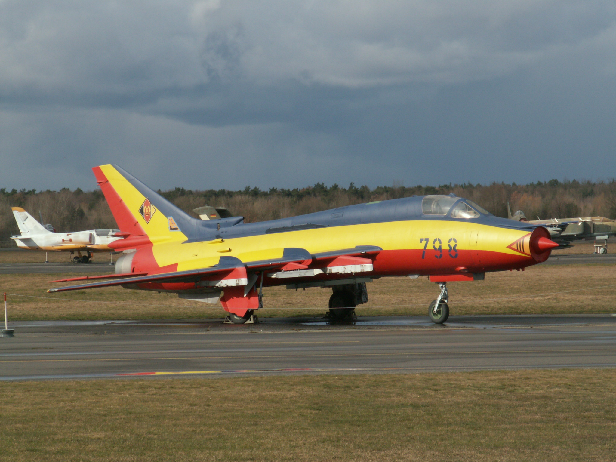 Su-22 of the East German Air Force at Gatow Luftwaffe Museum